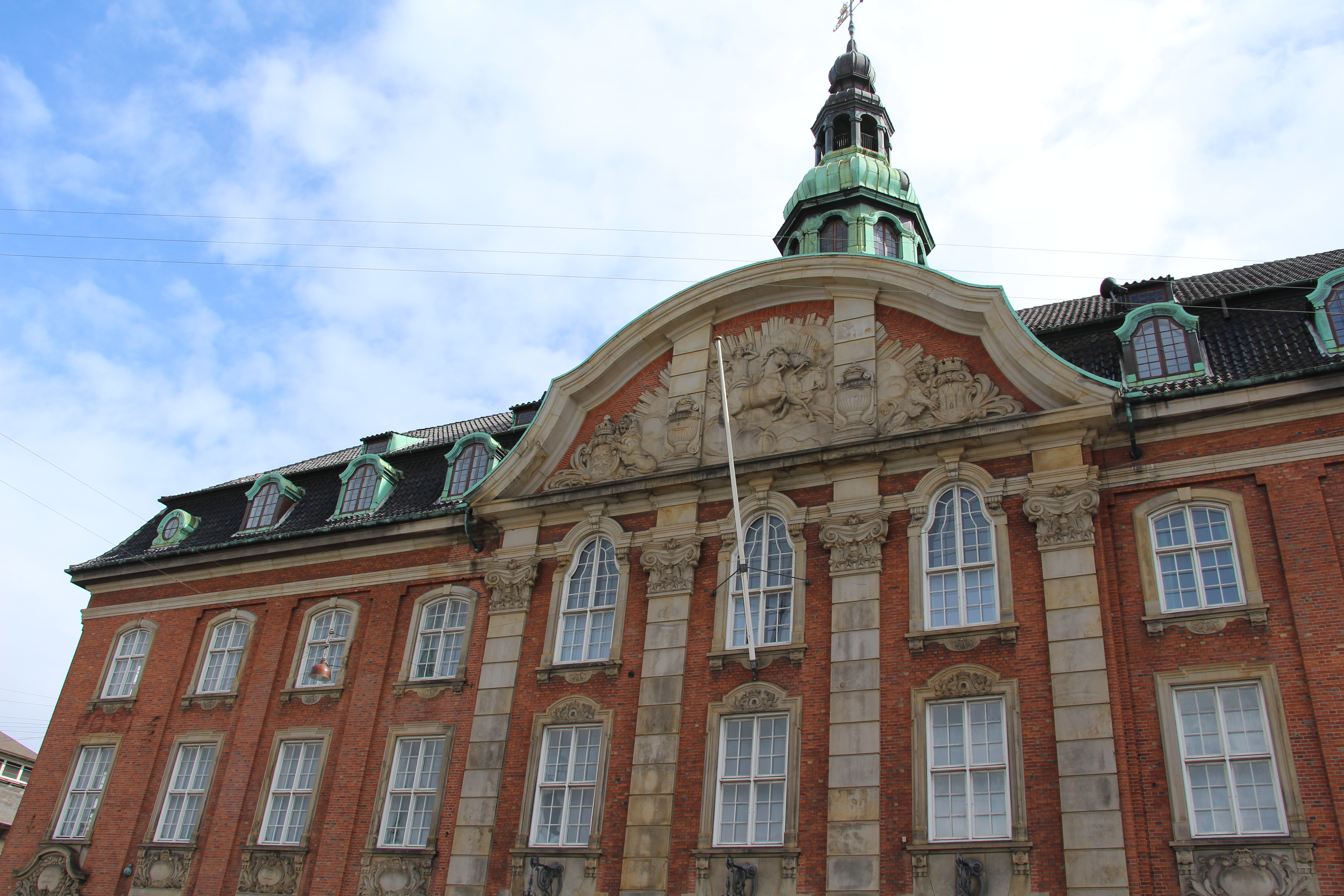 (Vesterbro) Tietgensgade The Central Post Office building was built as the headquarters of Posts and Telegraphs and now serves as Post Denmark headquarters. Arch. Heinrich Wenck 1909-12.